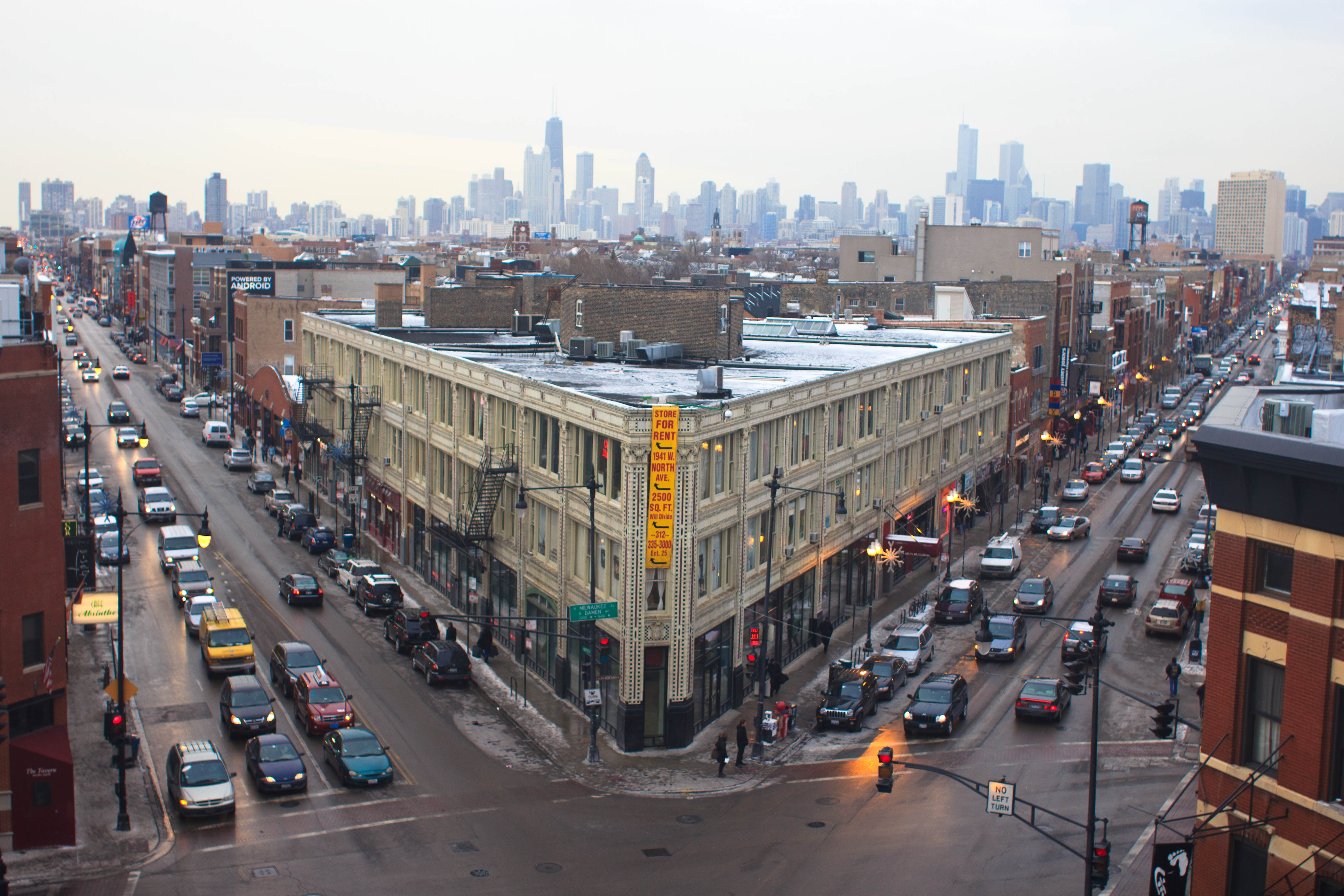 This was taken from the sixth floor of the Northwest (Coyote) Tower in Wicker Park.